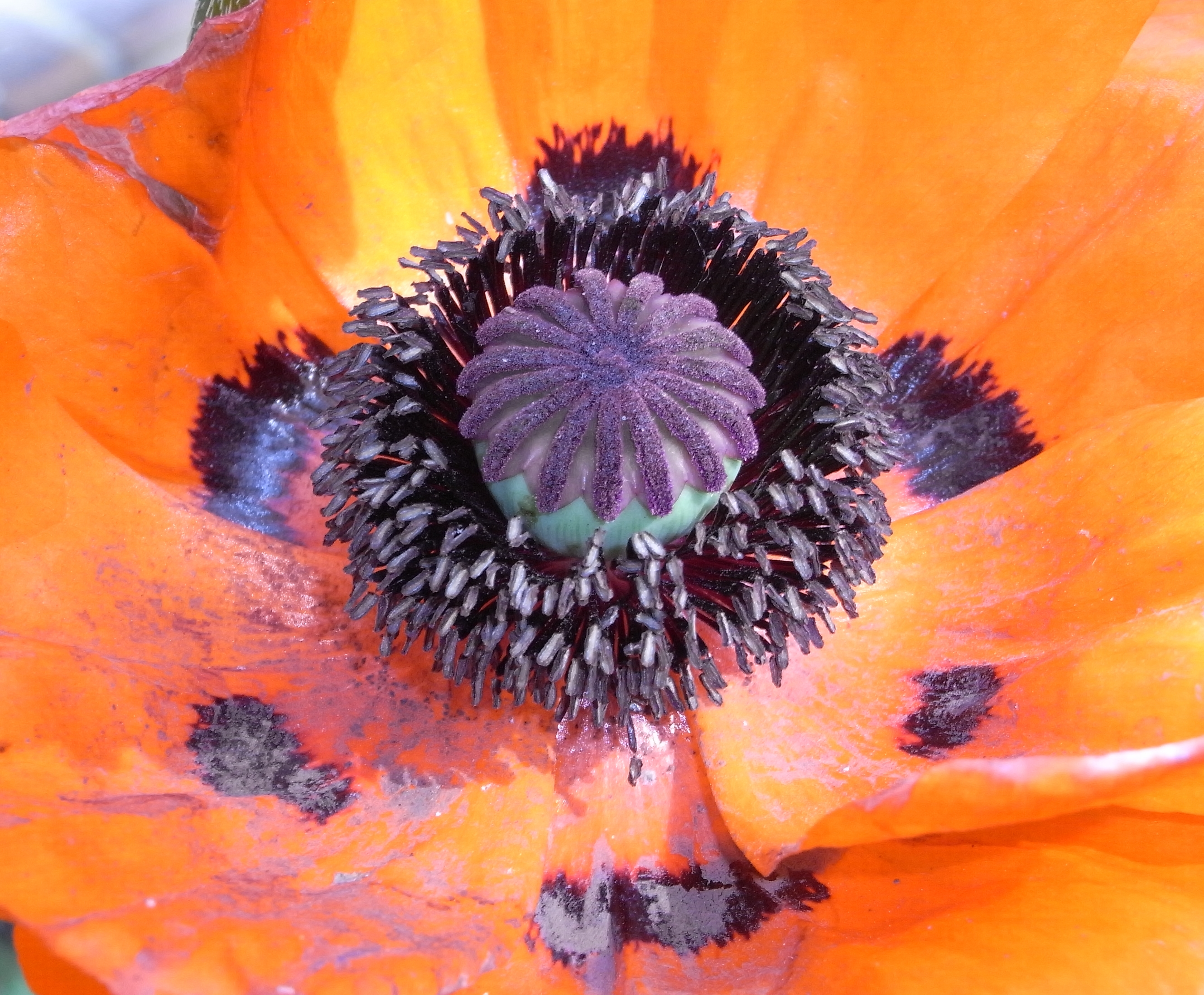 Papaver